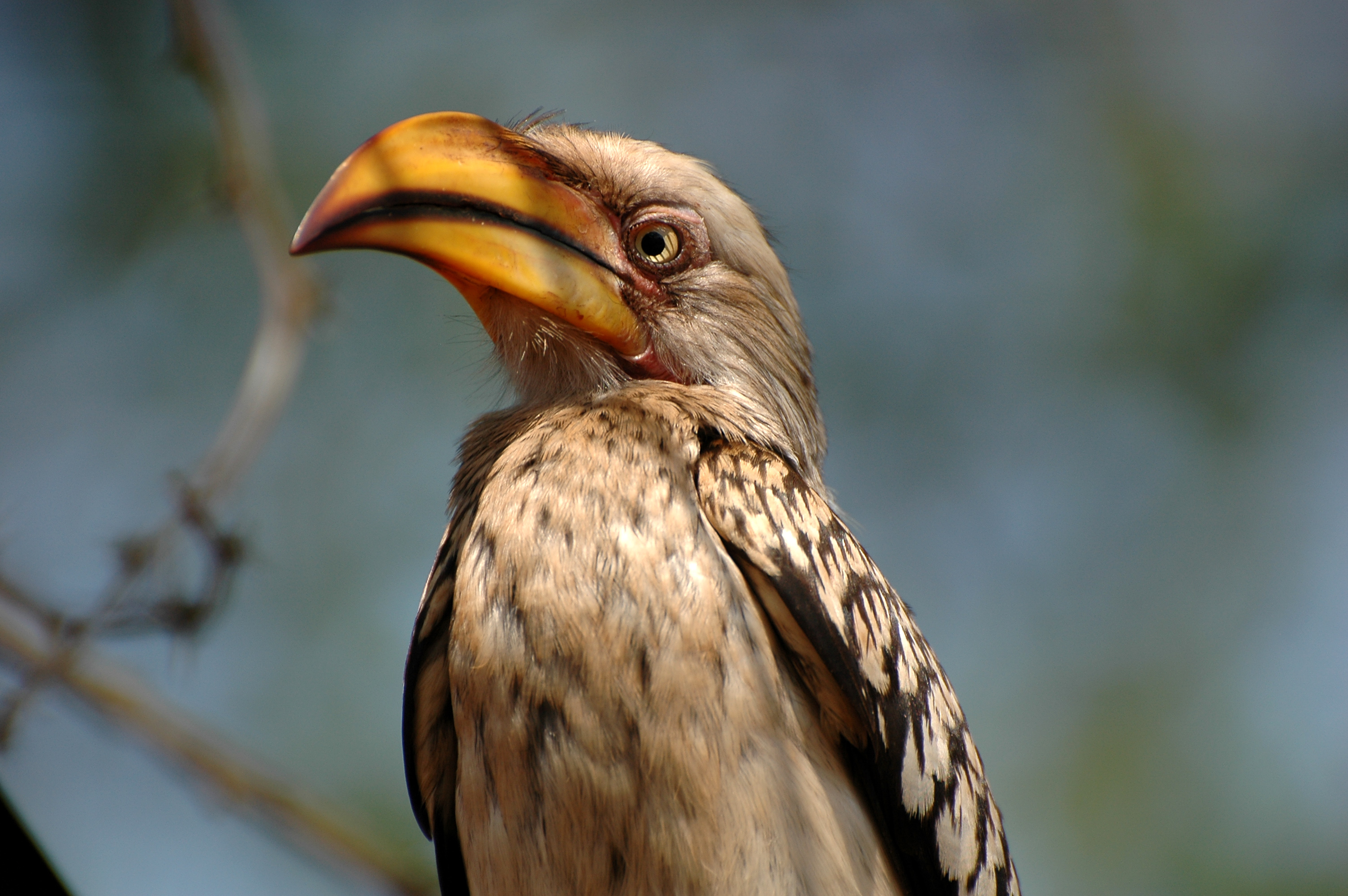 Eastern yellow-billed hornbill.Tockus flavirostris, Kruger National Park